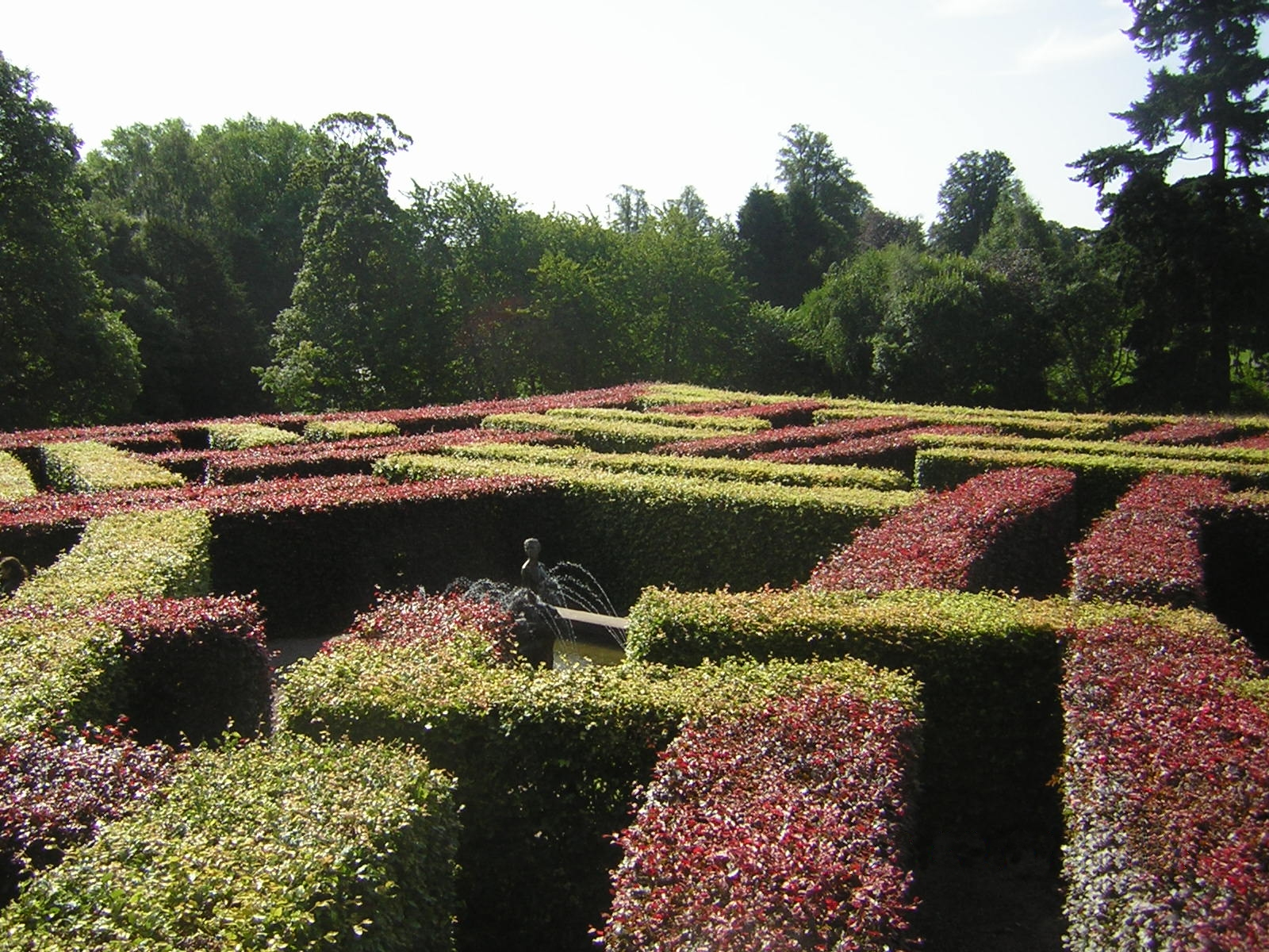 Maze at Scone Palace, Scotland A Scone-i palota labirintusa, Skócia